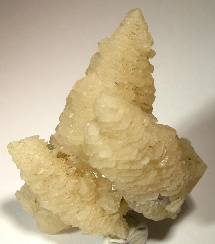 Benstonite, Calcite Locality: Mahoning No. 1 Mine (Minerva No. 1 Mine), Ozark-Mahoning Group, Cave-in-Rock Sub-District, Illinois - Kentucky Fluorspar District, Hardin County, Illinois, USA (Locality at ) These sharp pagoda-like towers of benstonite come to a finer point than you commonly see for the occurrence, and thus the piece is very dramatic. Small peripheral damage, but none to the 2 largest spikes. Superb miniature, very showy! 4.8 x 3.8 x 3. cm